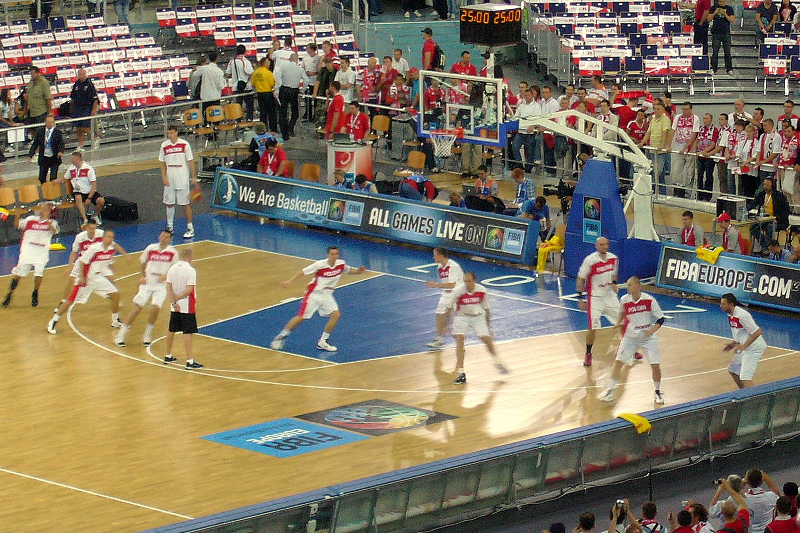 EuroBasket 2009: Polska - Serbia, rozgrzewka, Łódź